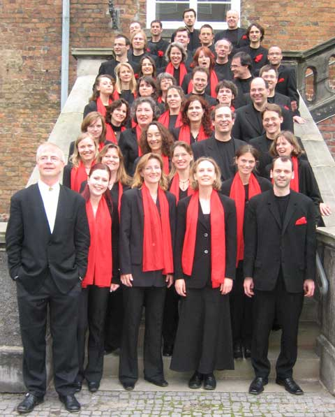 Carmina Mundi, Kiel, May 2006, Source: own work